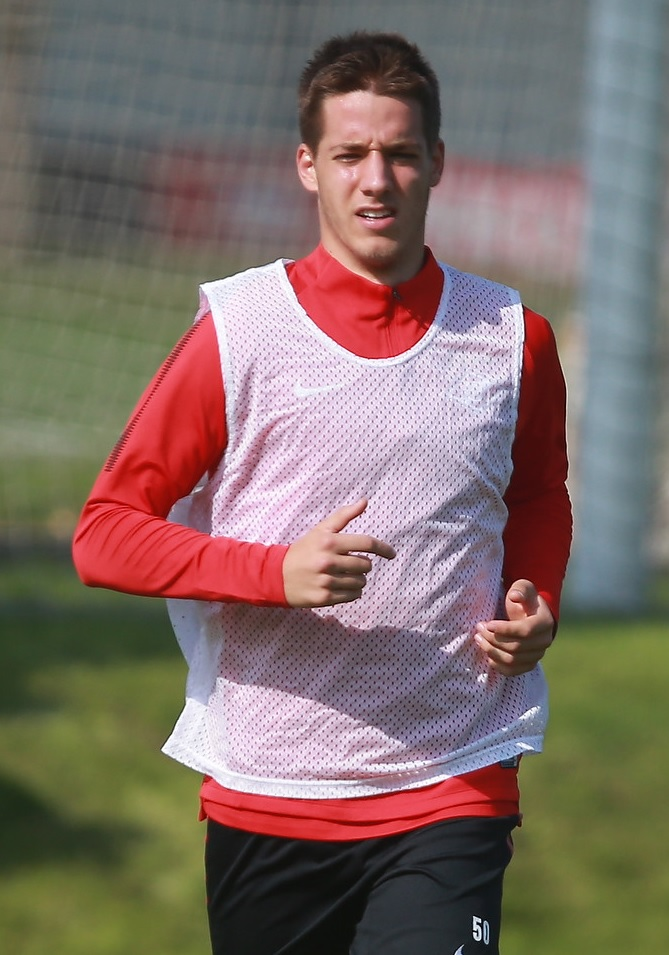 Mario Pašalić training with FC Spartak Moscow.